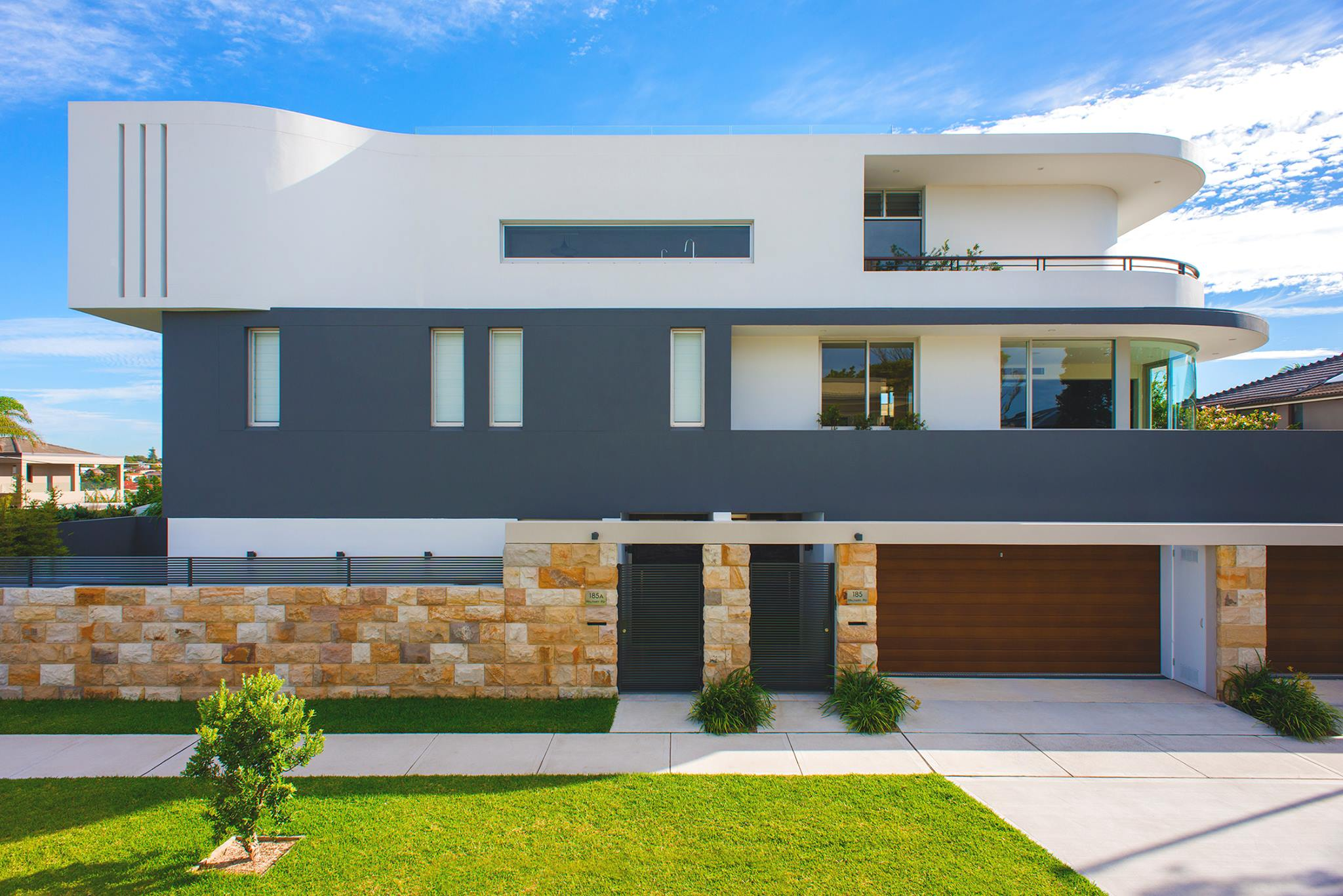 The Wave - Dover Heights - Side View From Weonga Road